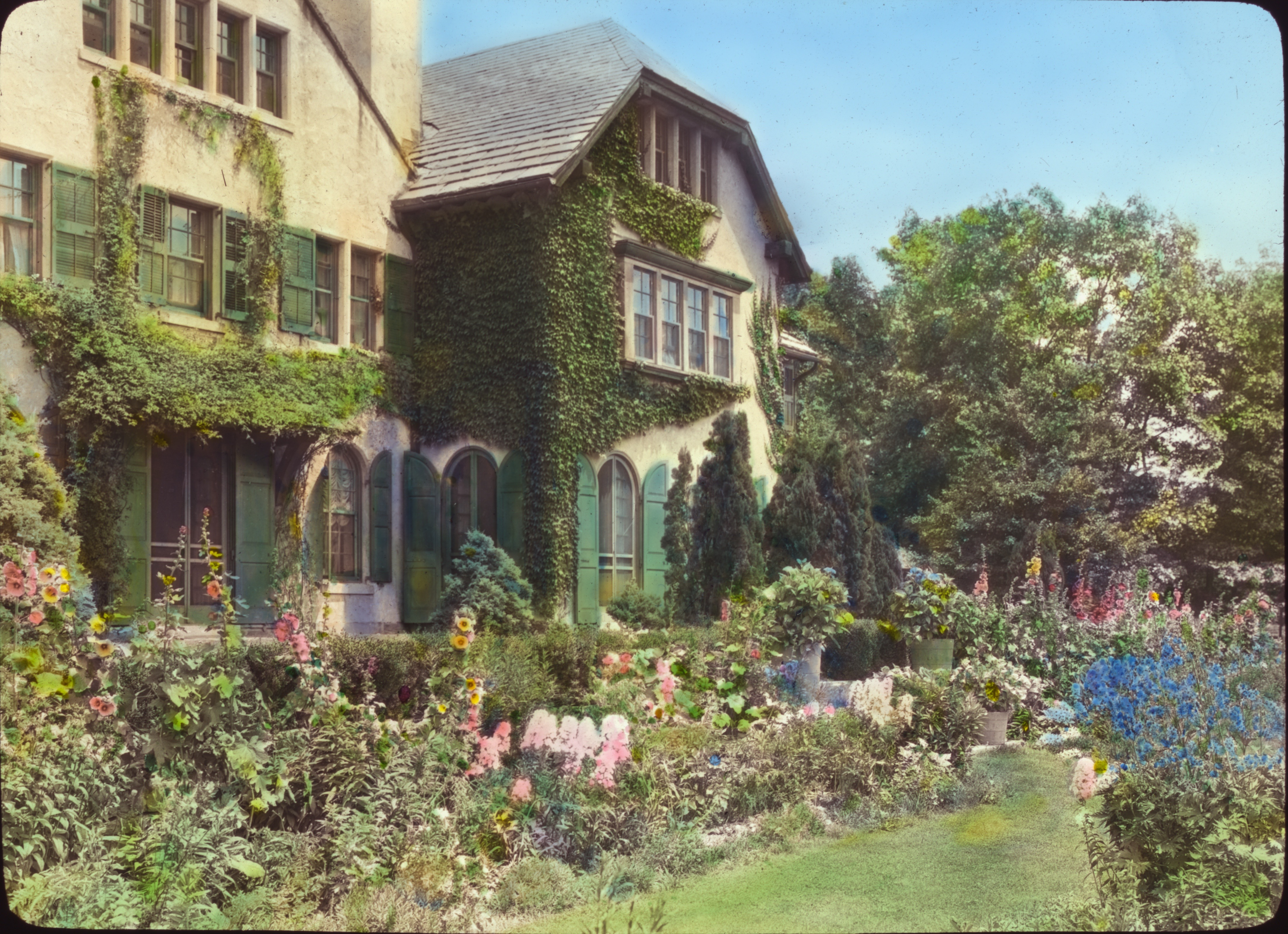 Johnston, Frances Benjamin,, 1864-1952,, photographer. ["Allgates," Horatio Gates Lloyd house, Cooperstown Road, Haverford, Pennsylvania. View to house] [1919 spring] 1 photograph : glass lantern slide, hand-colored ; 3.25 x 4 in. Notes: Site History. House Architecture: Wilson Eyre, Jr., from 1910. Landscape: Olmsted Brothers, 1911-1915. Associated Name: Mary Helen Wingate (Mrs. Horatio G.) Lloyd. Additions to garden by Ferrucio Vitale from 1920. Today: House but not garden extant. On slide (handwritten): "Lloyd." Title, date, and subject information provided by Sam Watters, 2011. Forms part of: Garden and historic house lecture series in the Frances Benjamin Johnston Collection (Library of Congress). Published in Gardens for a Beautiful America / Sam Watters. New York: Acanthus Press, 2012. Plate 93. Subjects: Gardens--Pennsylvania--Haverford--1910-1920. Flowers--Pennsylvania--Haverford--1910-1920. Houses--Pennsylvania--Haverford--1910-1920. Format: Lantern slides--Hand-colored--1910-1920. Repository: Library of Congress, Prints and Photographs Division, Washington, D.C. 20540 USA, Higher resolution image is available (Persistent URL): Call Number: LC-J717-X100- 70